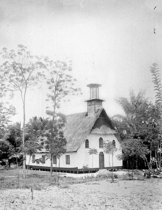 Church at Nainggolan